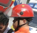 Pacific Helmet R3V4 Hong Kong Fire Service Department Ambulanceman Special Rescue Squad 中文（香港）: Pacific 頭盔 R3V4 香港消防處 救護員 特種救援隊